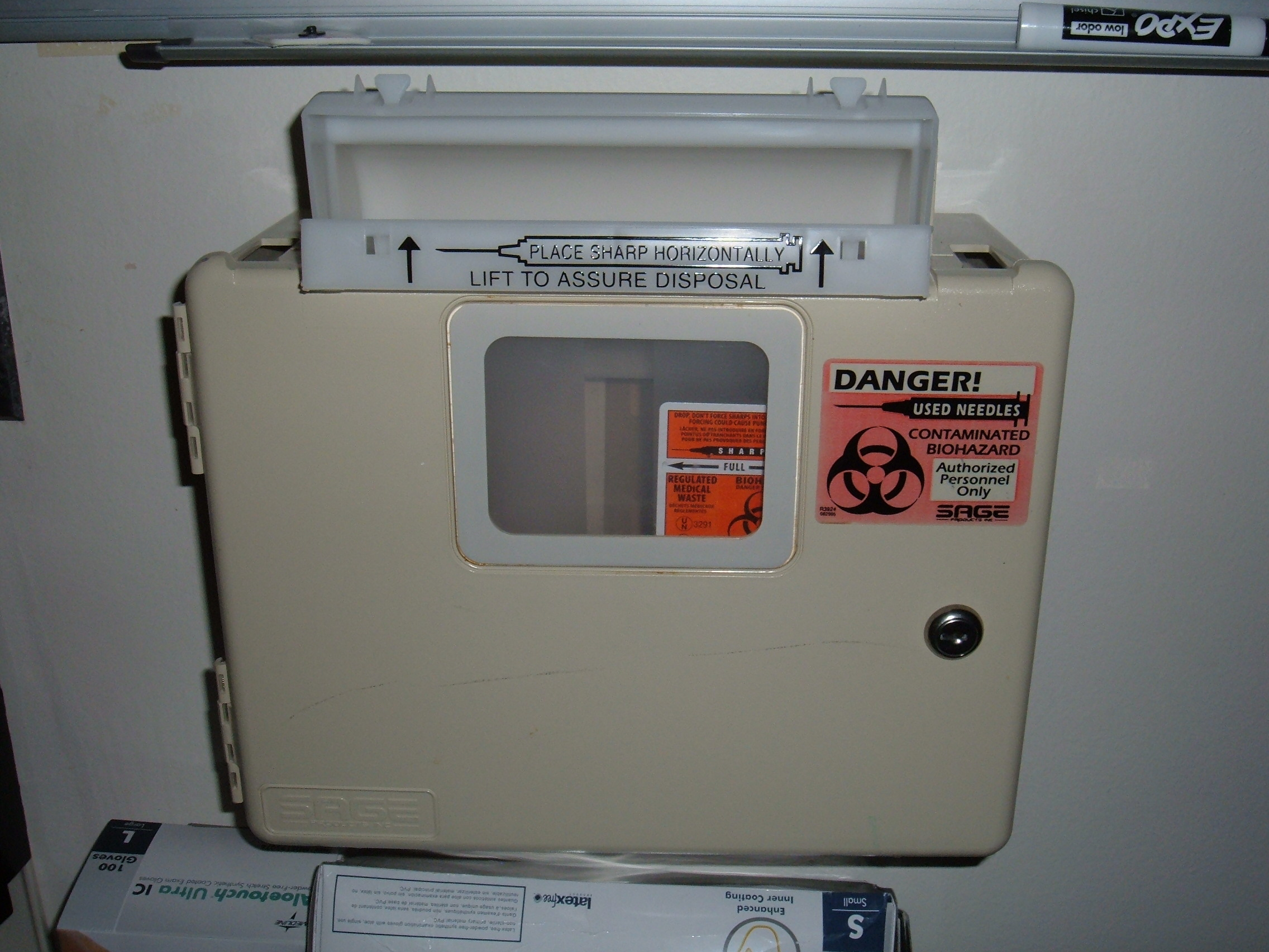 A wall-mounted sharps container found in a hospital room for the disposal of used syringes and other blade equipment. When full the flap shuts.